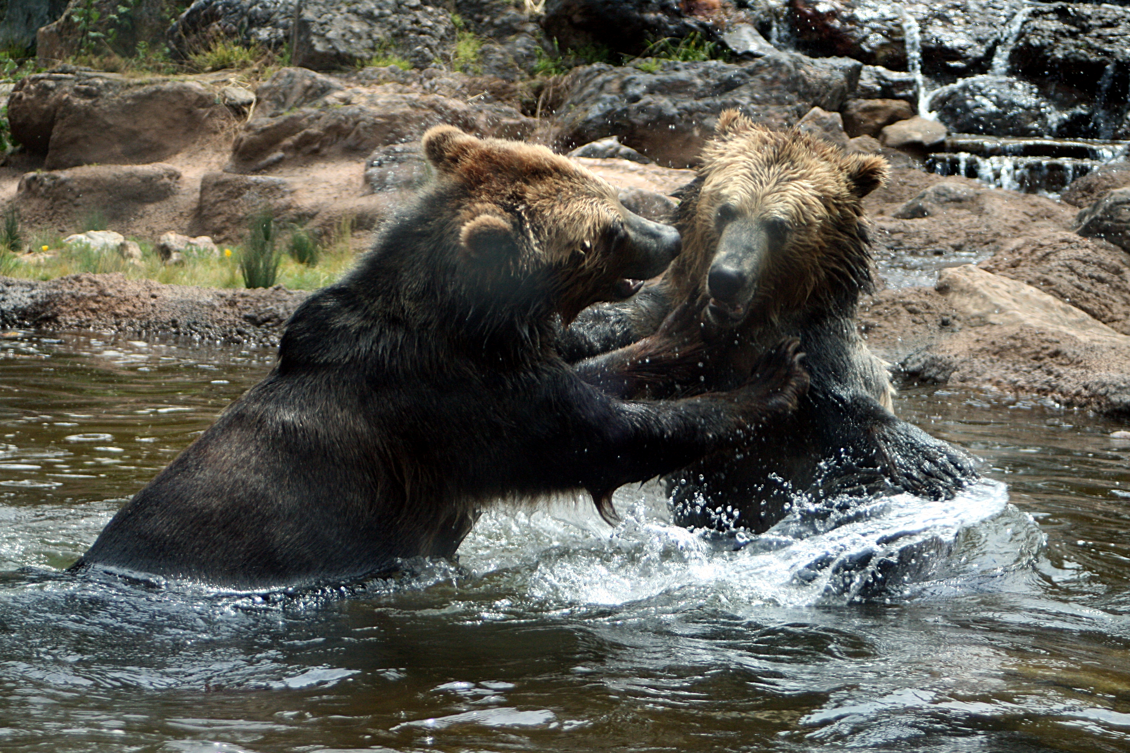 Bears Kachina and Kiona are engaged in a play fight at San Francisco ZOO. The picture was taken by Brocken Inaglory on 6/20/2007 Commons:Category:Ursus arctos